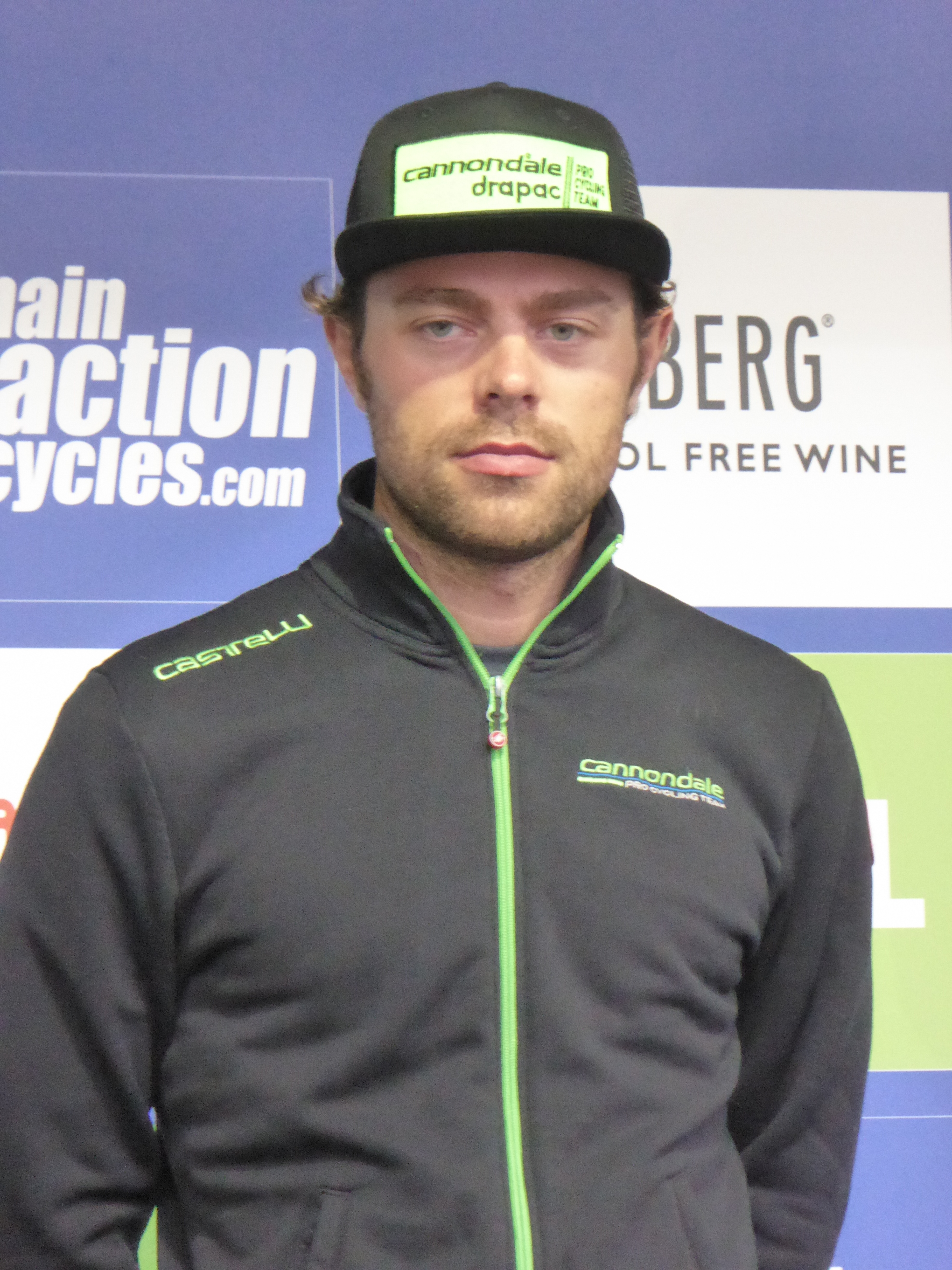 Wouter Wippert (Cannondale-Drapac), pictured at the 2016 Tour of Britain team presentation in Glasgow on 3 September 2016.